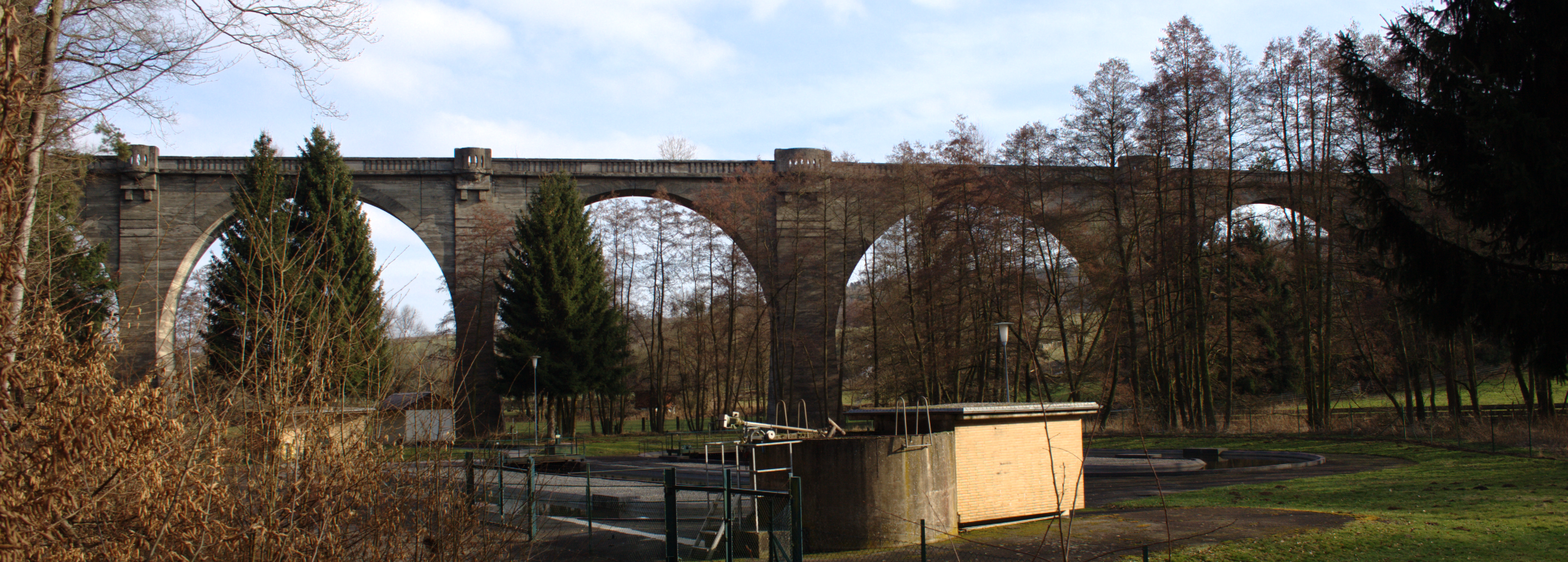 Concrete railway bridge of former railway line Alsfeld-Eifa (Niederaula) / Hesse / Germany